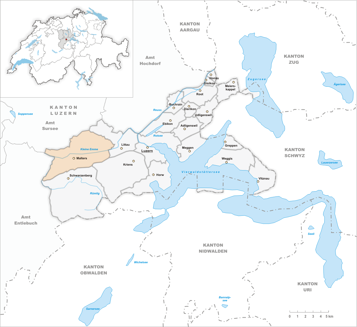 Municipality Malters